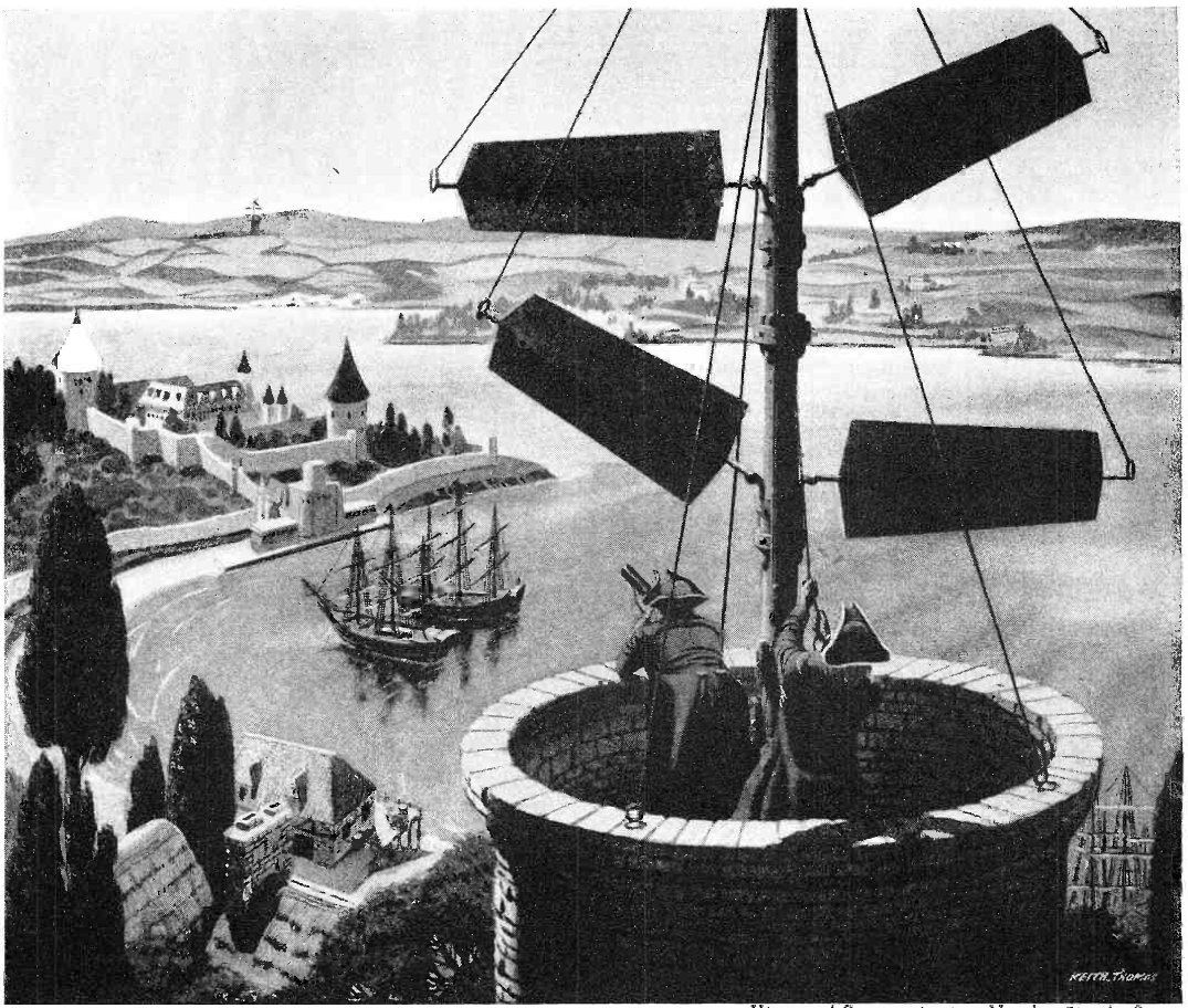 Illustration of communication by mechanical semaphore in 1800s France. Lines of towers supporting semaphore masts were built within visual distance of each other. The arms of the semaphore were moved to different positions, to spell out text messages. The operators in the next tower would read the message and pass it on. Invented by Claude Chappee in 1792, semaphore was a popular communication technology in the early 19th century until the telegraph replaced it.